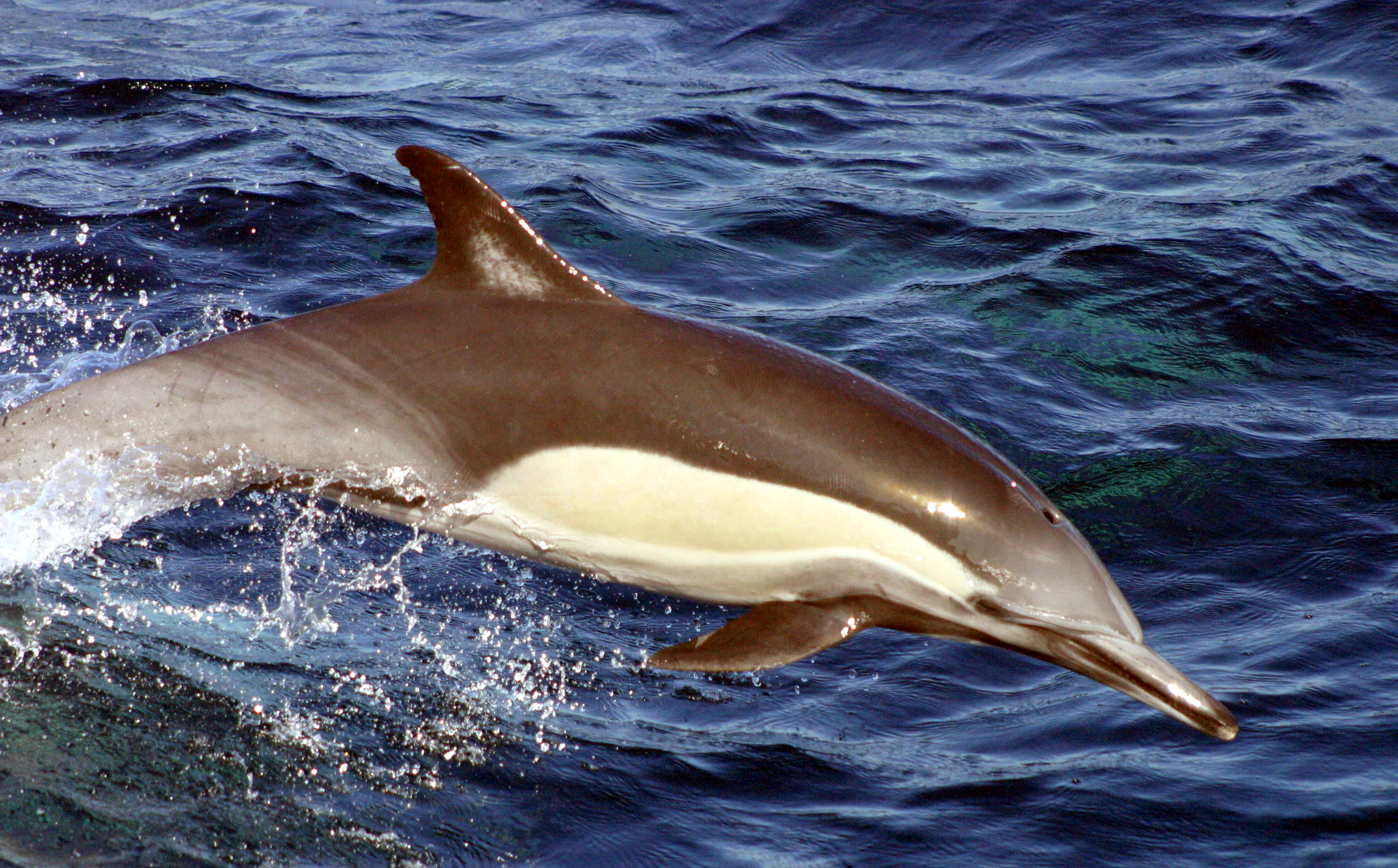 Long-beaked common dolphin; Delphinus capensis